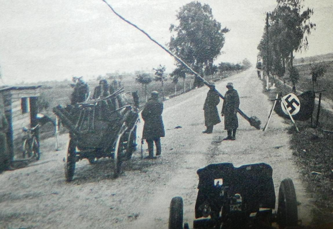 At the new border between the Third Reich and USSR September 1939 to 22.June 1941